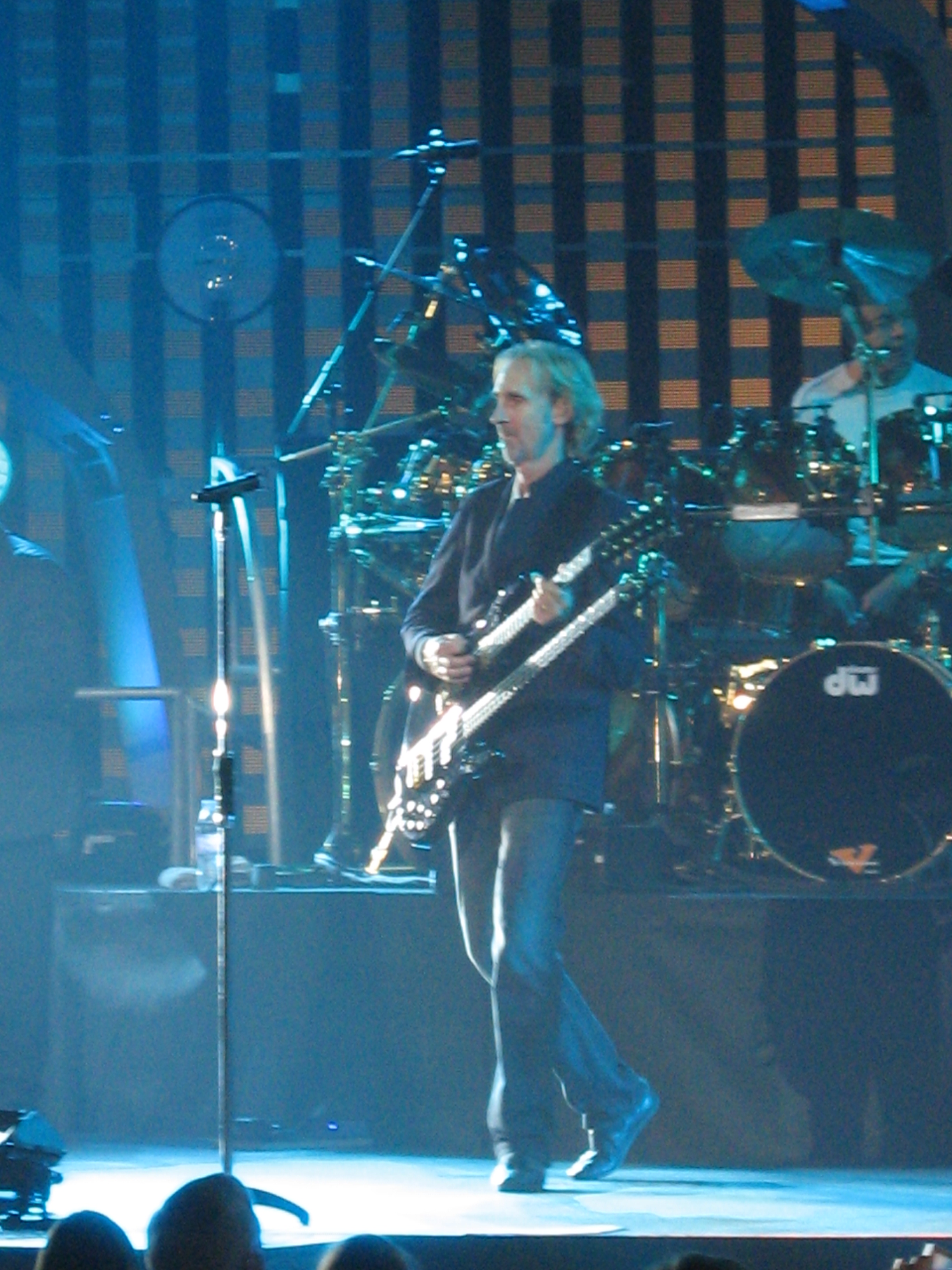 Mike Rutherford performing with Genesis in concert at the Verizon Center, Washington, D.C., USA.